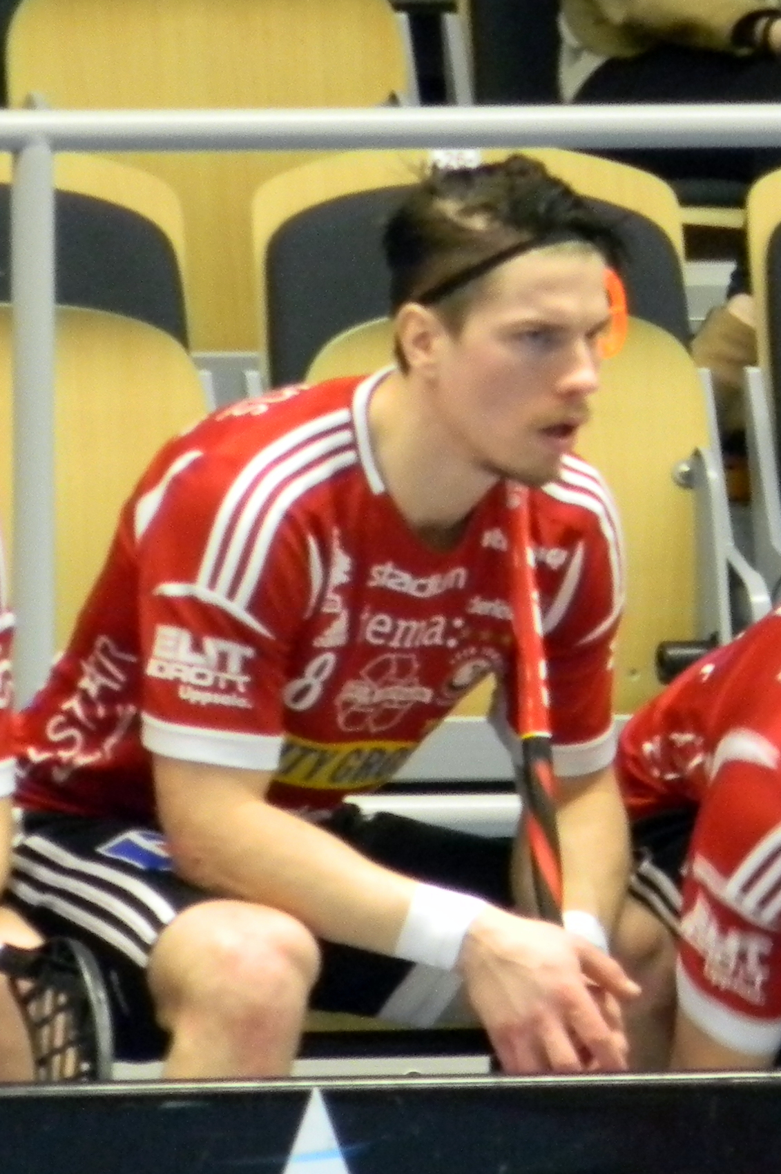 Fredrik Holtz, a floorball player from Germany